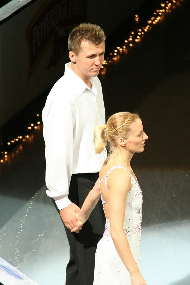 Dorota Siudek (née: Zagórska) and Mariusz Siudek at the 2006 Skate America exhibition.